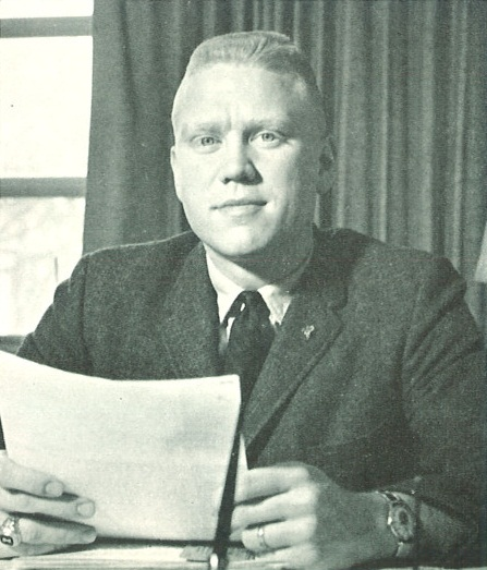 Sharm Schuerman, University of Iowa basketball coach